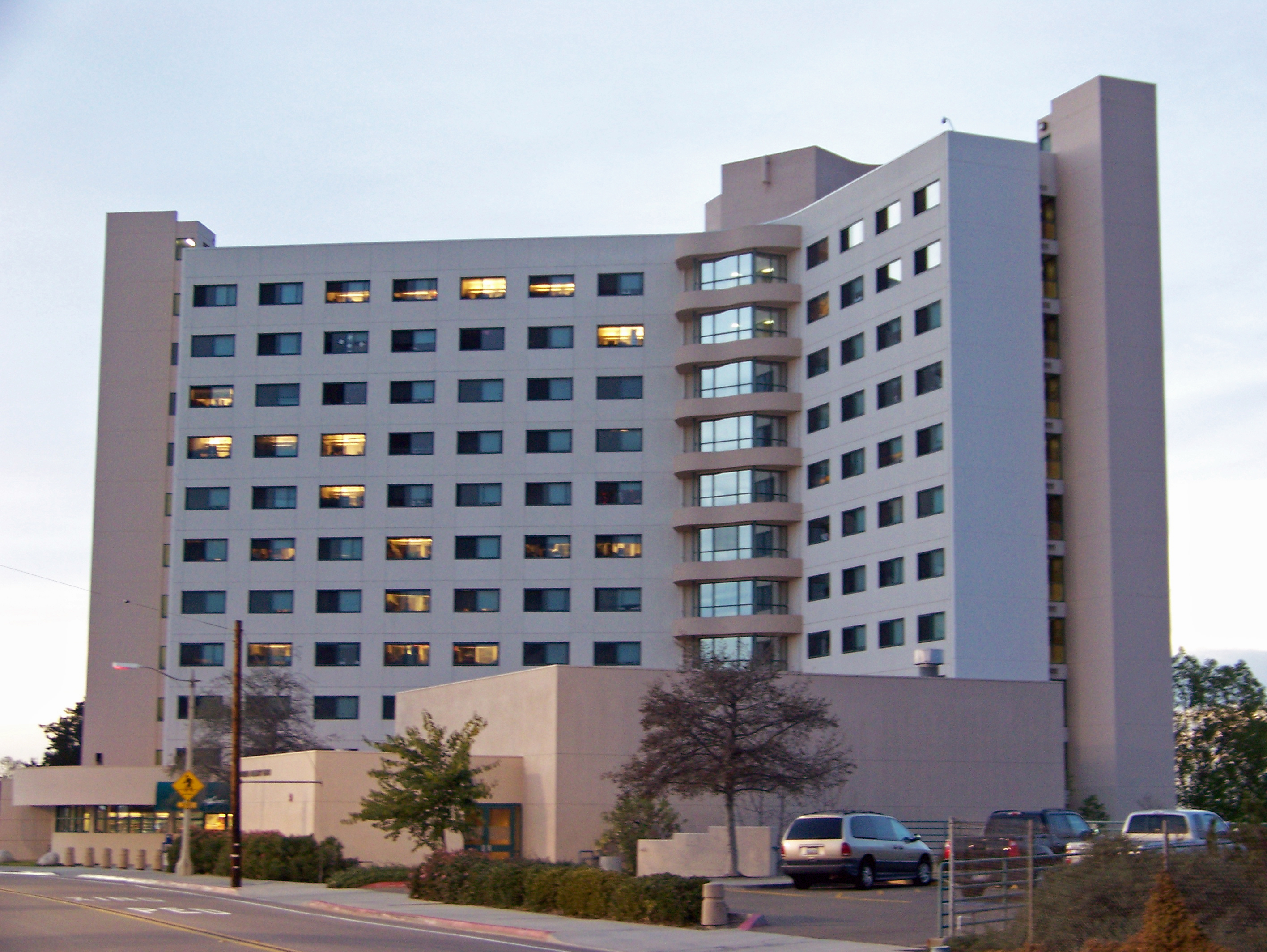 Chapultepec Hall dorm at San Diego State University.